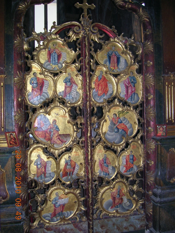 Royal door in Serbian Kovin Monastery in Ráckeve, Hungary